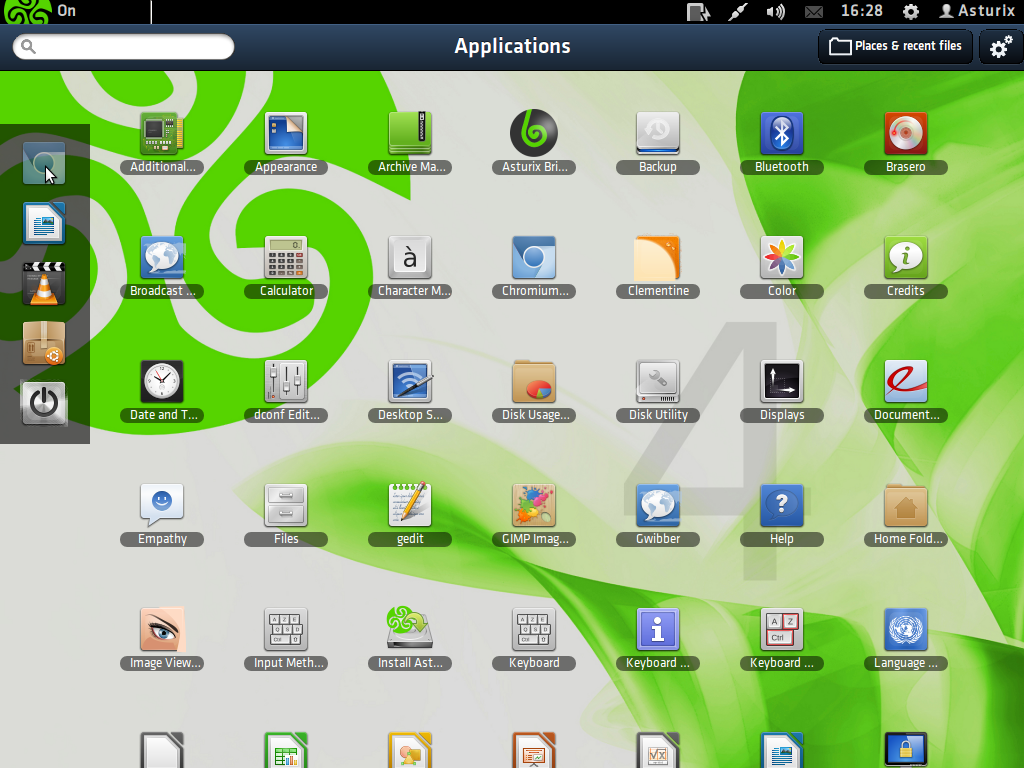 An screenshot for Asturix 4